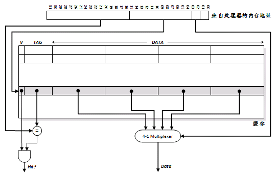 缓存的硬件结构